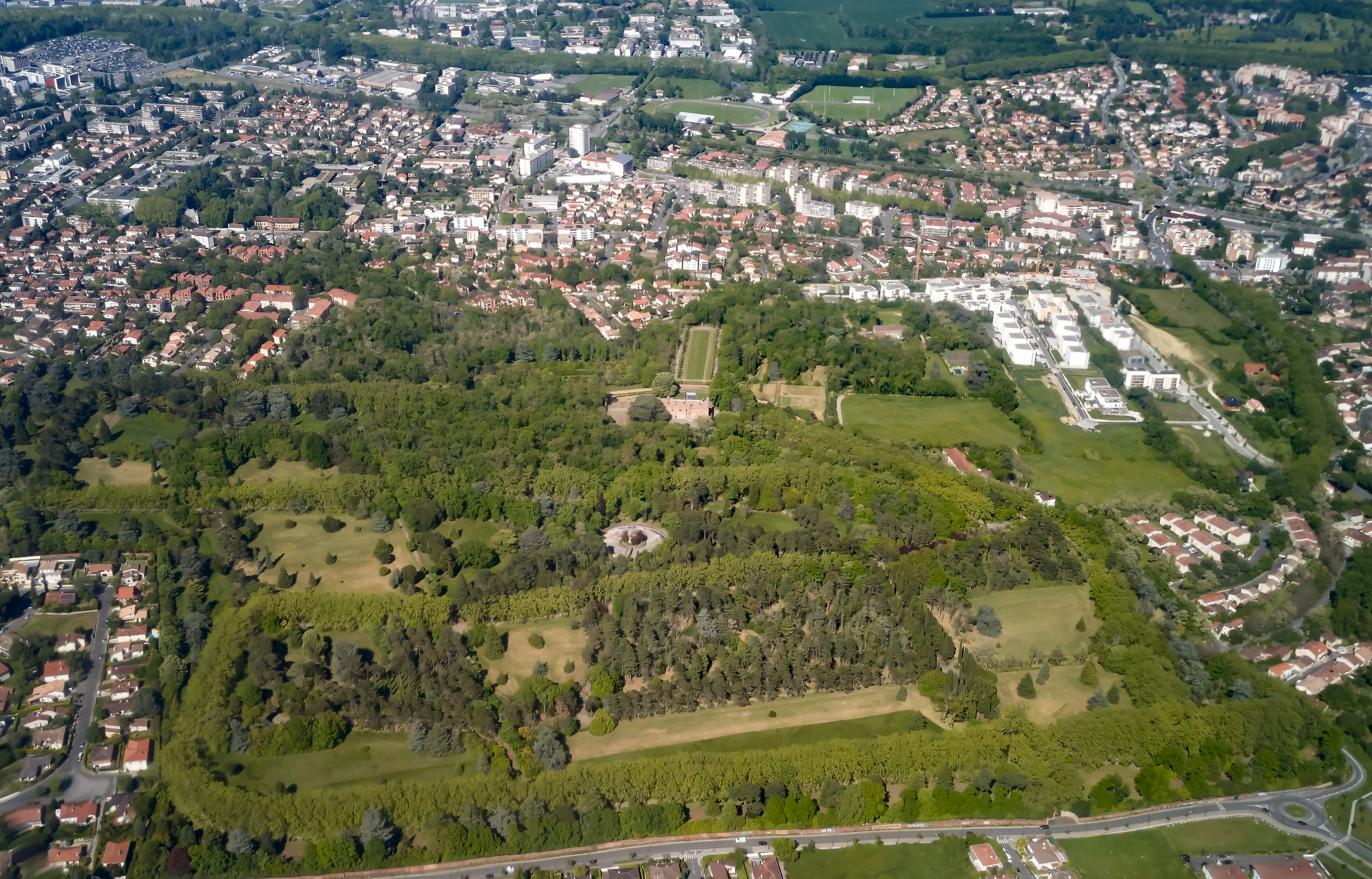 Aerial view of Aubuisson Castle and park in Ramonville-Saint-Agne